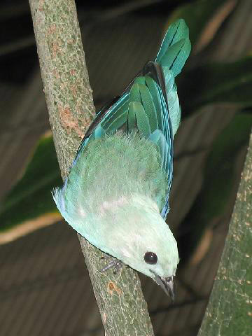 Description: Blue-grey Tanager (Thraupis episcopus) - Source: own work - Location: Central Park Zoo, New York - Author: self, User:Stavenn